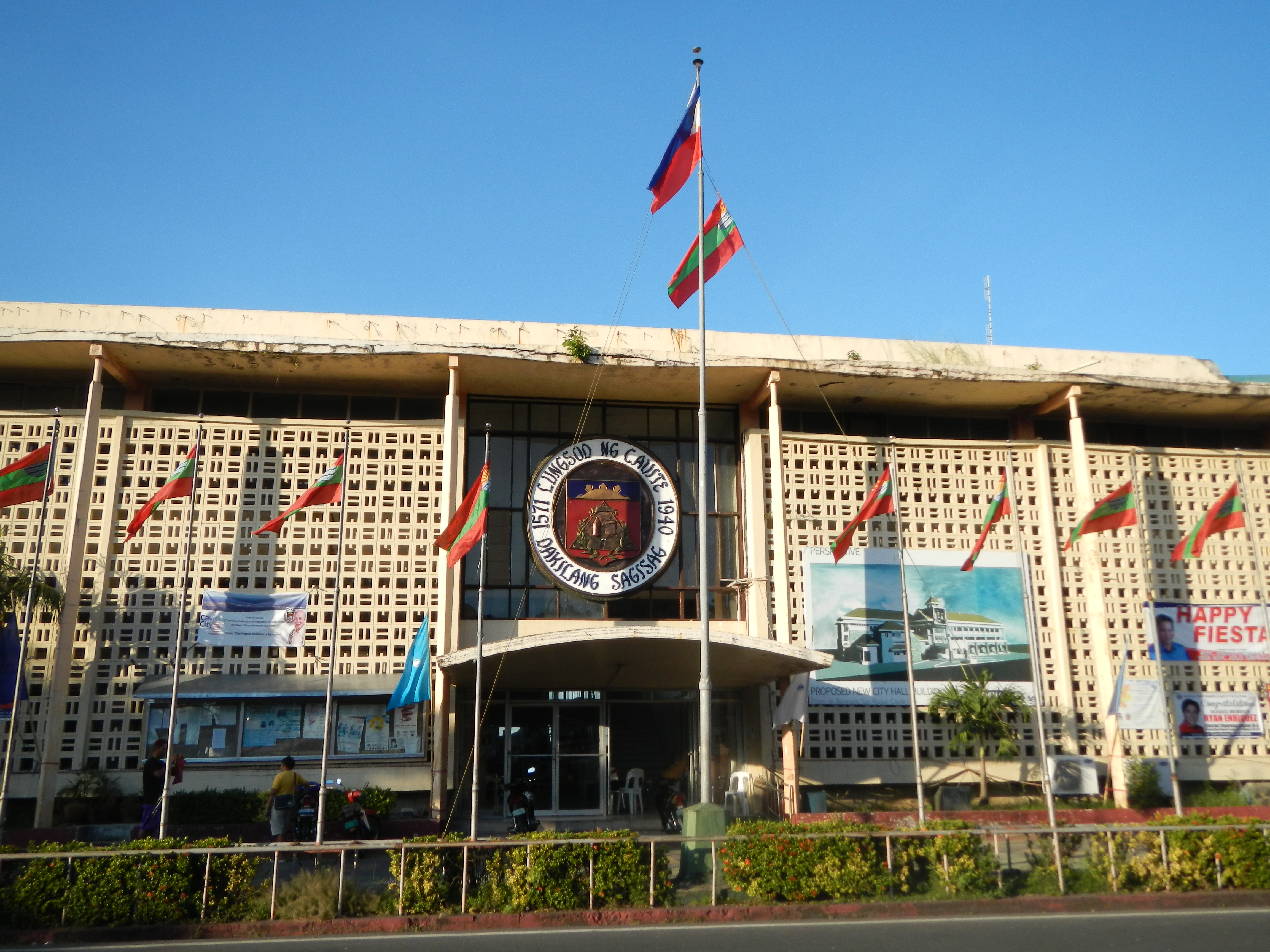 Upload Wizard photos of - Cavite City Hall Complex, its glorious interior, facade, and the New Cavite City Hall being built 20%, the Busts, Monuments of Cavite City's Martys and Leaders, the City Hall Clock Tower, the Giant Logo and Seal of the City and beside are the boats, bancas, fishing vessels and some dried fishes - (including the insolvent Metro Star Ferry facilities, building, Manila Bay, Sea and nearby the Giant Fishes Fountain Monument beside the Governor Samonte Park, the Rizal Monument in the Cavite City Park where the 1872 Cavite mutiny, January 20, 1872, 200 Filipinos under Sarmento La Madrid beside this Park at Fort San Felipe, Cavite, Philippines in the Spanish victory and Execution of Gomburza February 17, 1872 at Bagumbayan now Luneta Park happened - adjacent the - Governor Samonte Park with its baywalk, Children's Park, Samonte Statue, and 13 Martyrs Monument - "Ang Pag-aaklas sa Kabite ng 1872" or Cavite Mutiny of 1872 in front of the blue sky, the deep blue to black sea and deepest Cavite Ocean, in Cavite City, Province of Batangas, the Covered Court, and beside it is the landmark ruins of the Oldest Church 1667 Nuestra Señora de la Soledad de Porta Vaga - the Historical marker is placed here in a stone and the tree, beside the Monument of the Official Seal and Logo which is in front of the Cavite City Hall, these are Heritage and Cultural treasures of Cavite recognized by the NCCA and NHI.